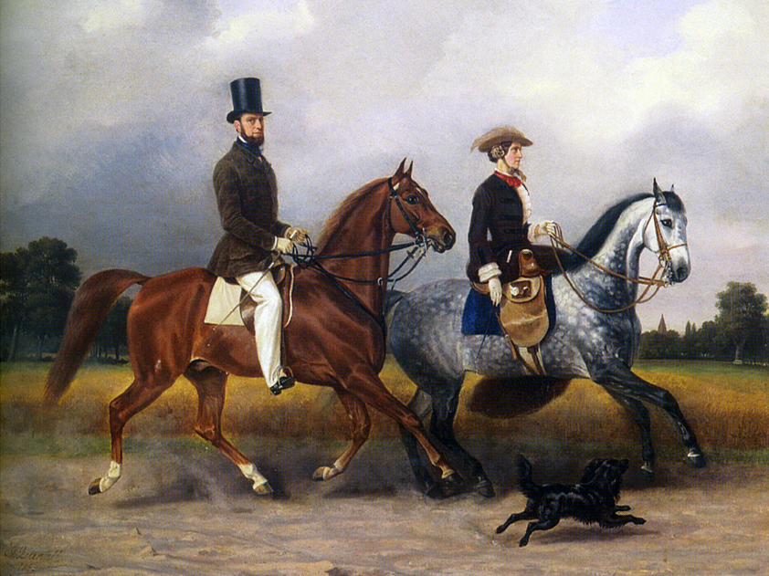 The german entrepreneur and promoter of the Bürgerpark Bremen, Johann Hermann Holler and his wife Emma Sophie taking a horse ride in Oberneuland.